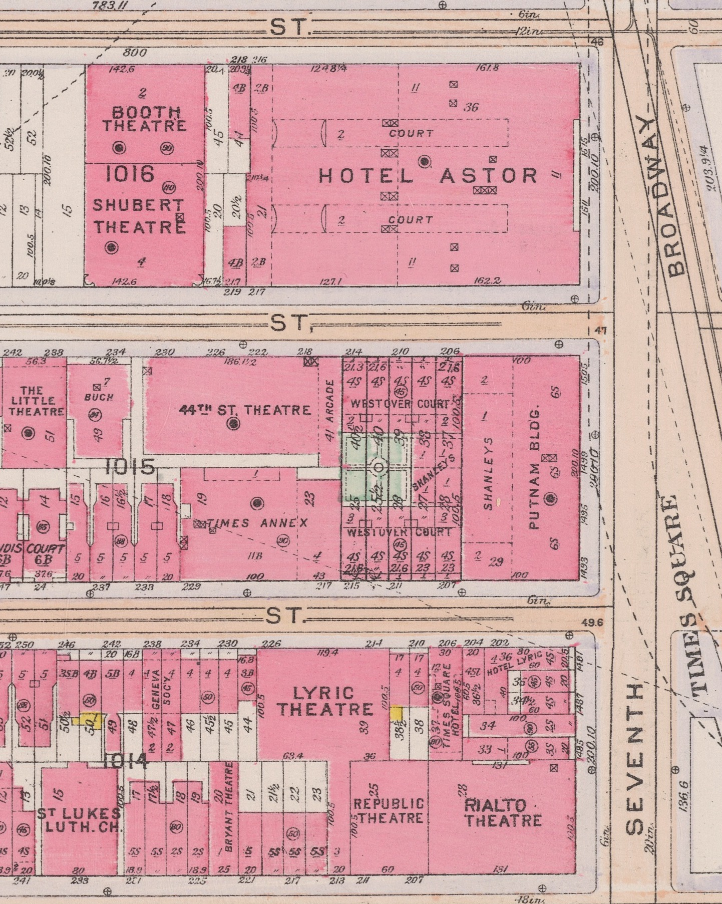 Plate 71 from: Bromley, George W. and Walter S. Atlas of the Borough of Manhattan City of New York. Desk and library edition. (New York: G. W. Bromley and Co., 1916) FOR KEY TO MAP SYMBOLS, CLICK HERE.